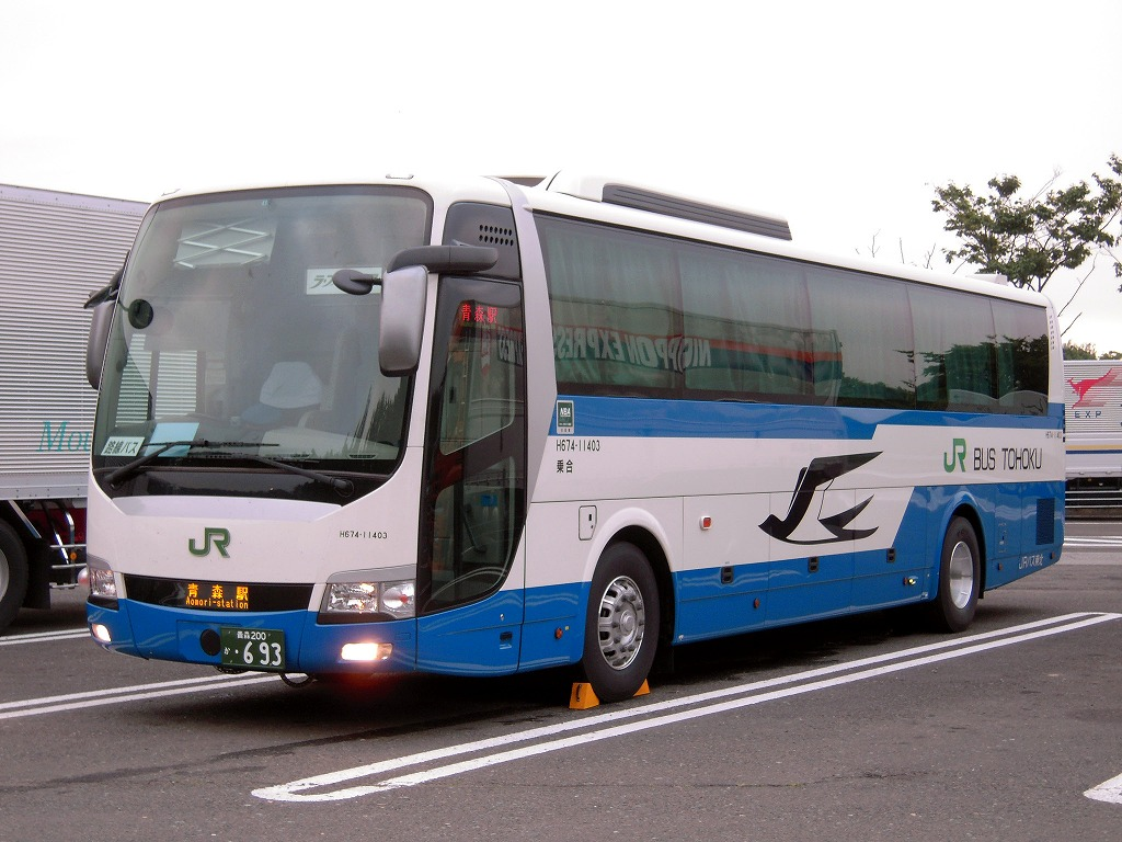 JR bus Tohoku Mitsubishi Fuso Aero Ace(LKG-MS96VP)for Highway bus "La foret"(Aomori-Tokyo)